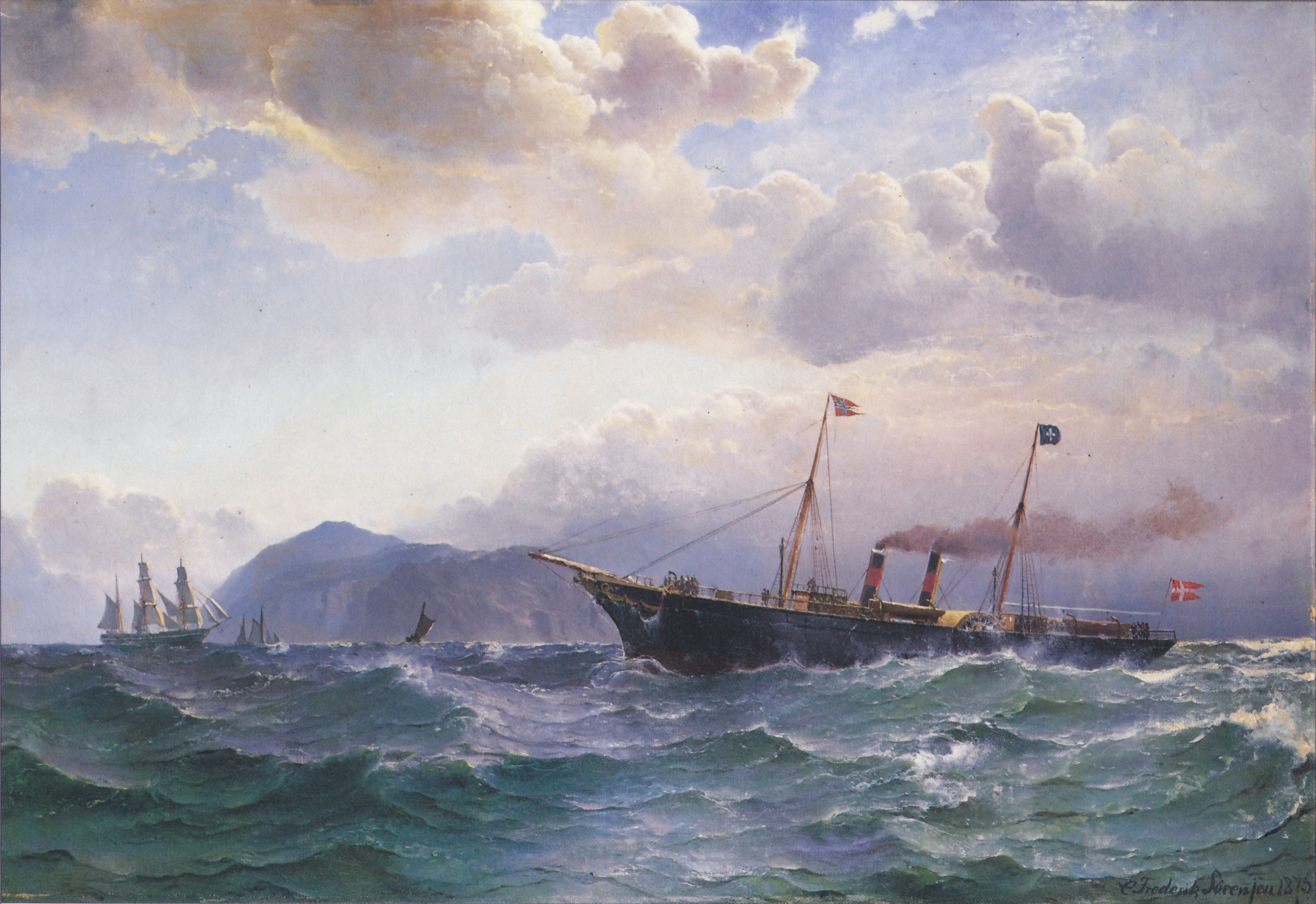 The paddle steamer Christiania was built in 1875 for the service between Copenhagen and Kristiania (now Olso). Here it is shown at Kullen (Sweden). It was owned by DFDS and flies the Maltese cross of that company.